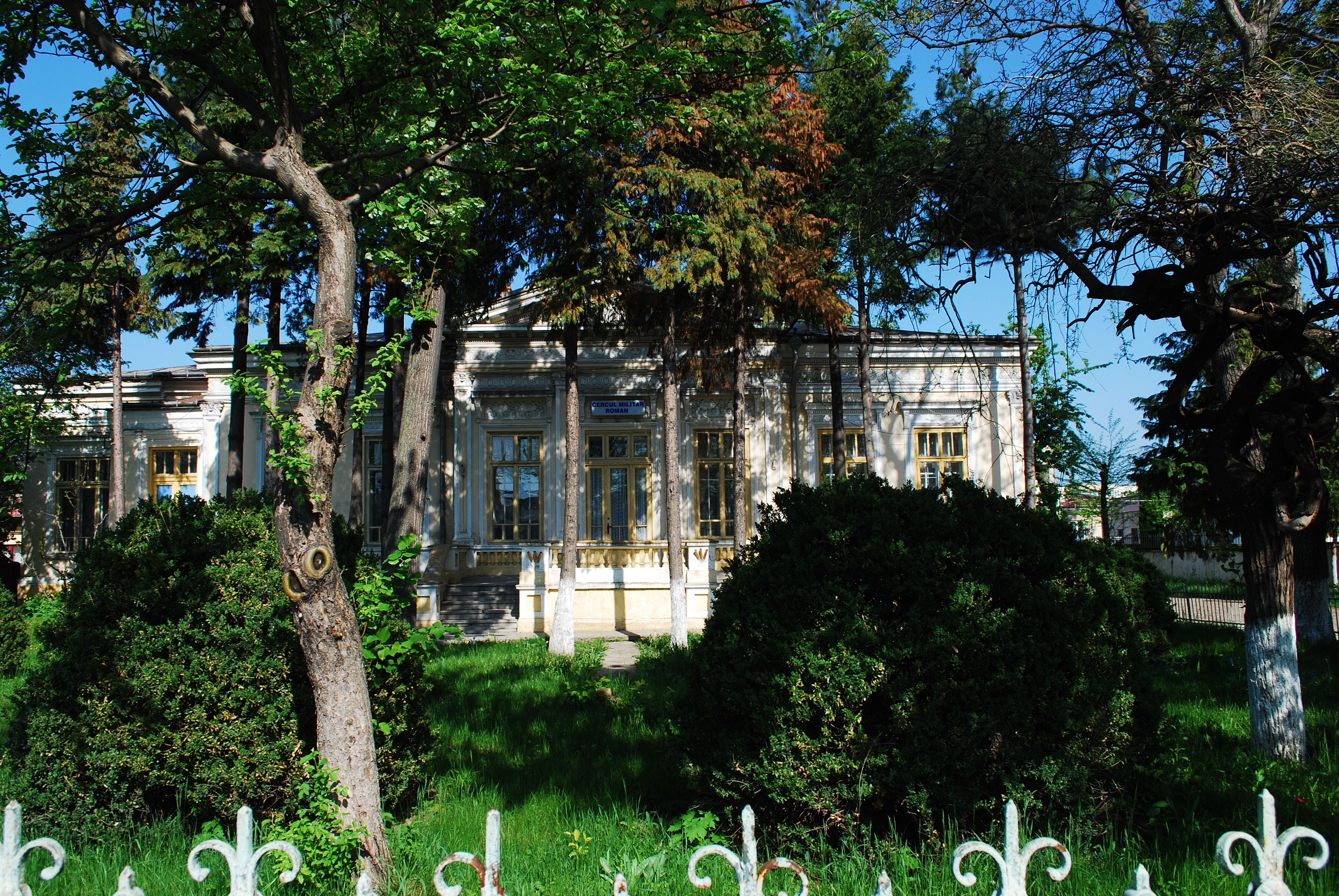 Brănișteanu house in Roman, Neamț County, RomaniaRomână: Casa Brănișteanu (Cercul Militar) din Roman, județul Neamț, România